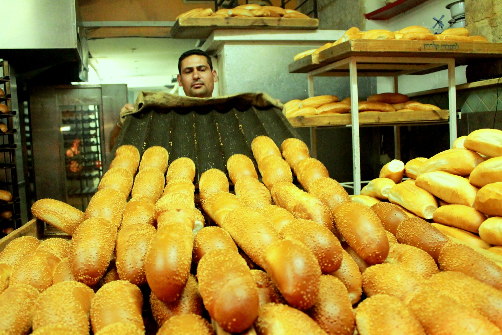 baker on mahne yehuda